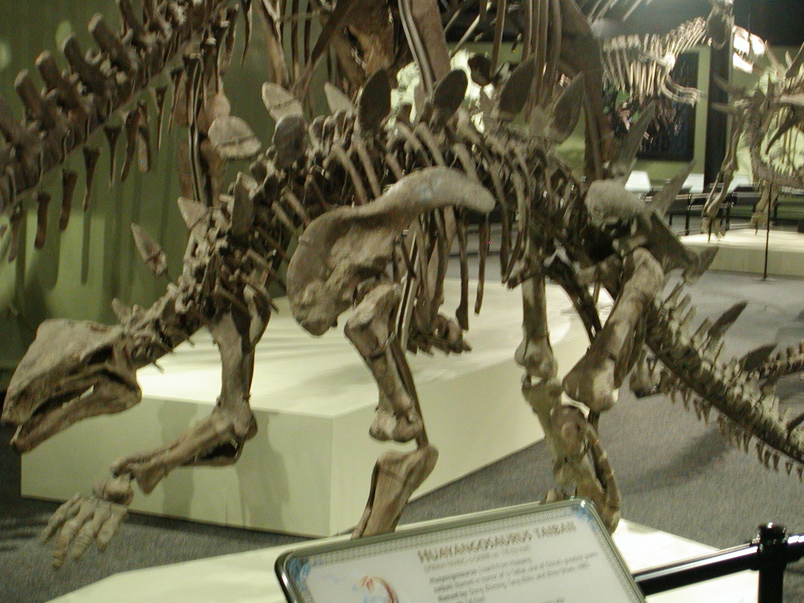 Photo of skeleton of Huayangosaurus taibaii from the Beijing Museum on view at the Miami Museum of Science.